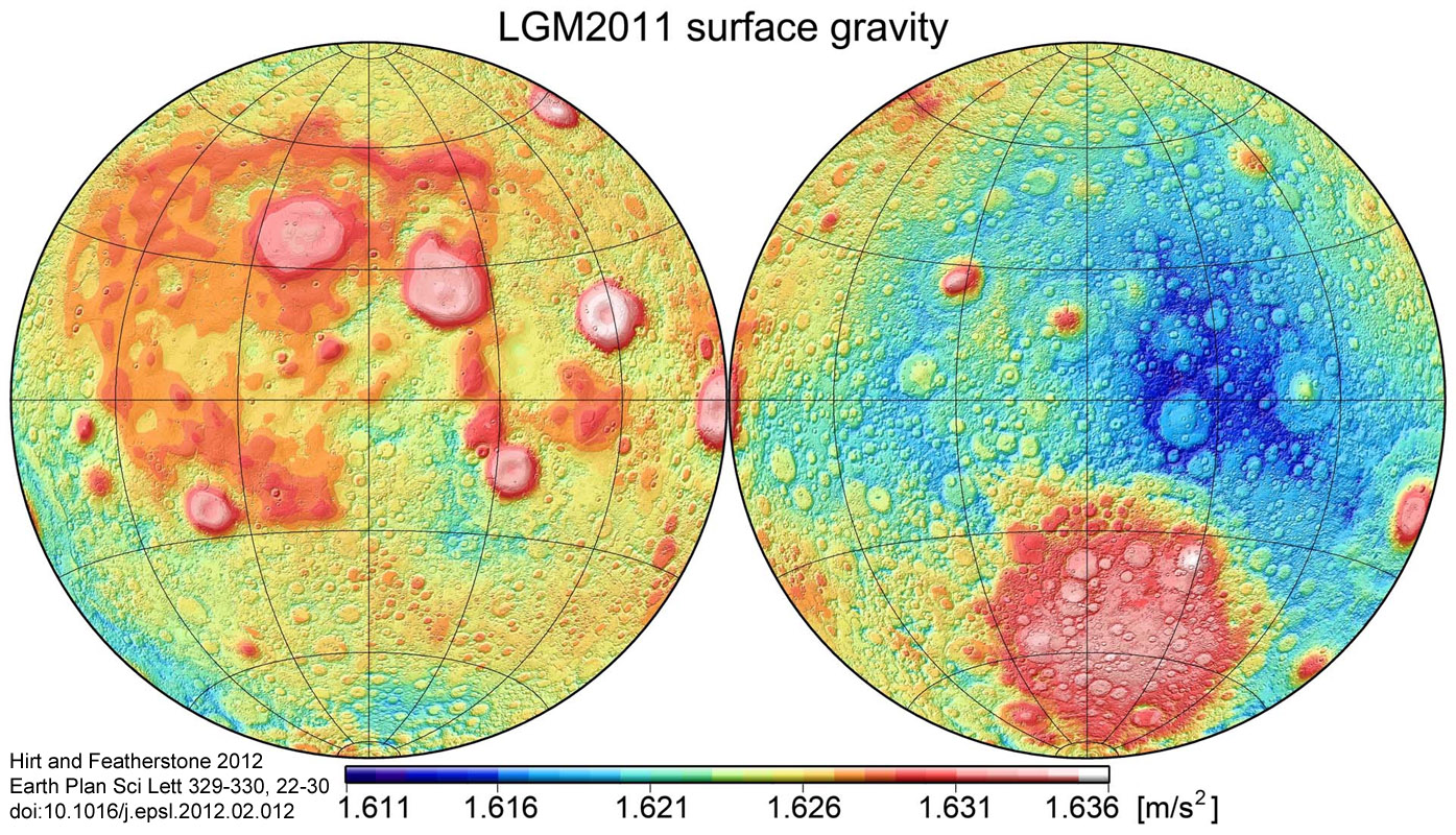 Map of gravity acceleration values over the entire surface of Earth's Moon. Taken from Lunar Gravity Model 2011 (